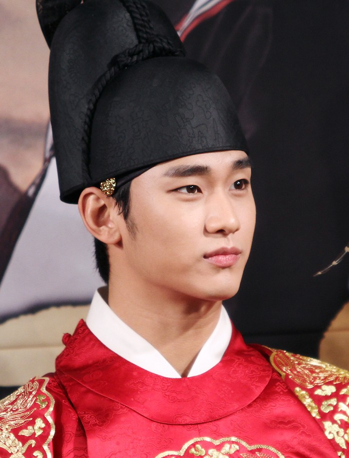 Kim Soo-hyun as King Lee-hwon at the press conference for "Moon Embracing the Sun", 2 January 2012